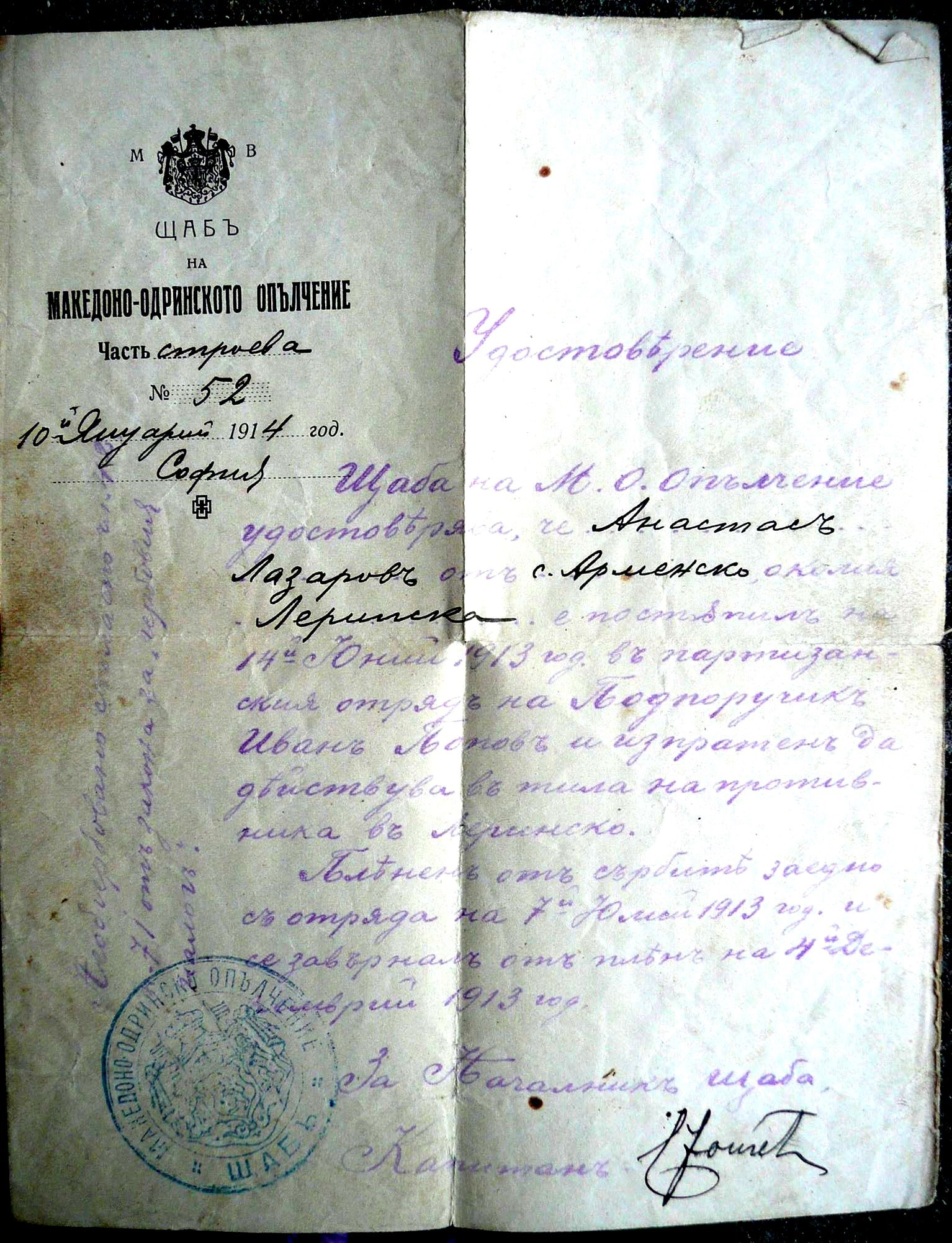 Certificate for service in the Macedonian-Adrianopolitan Volunteer Corps.